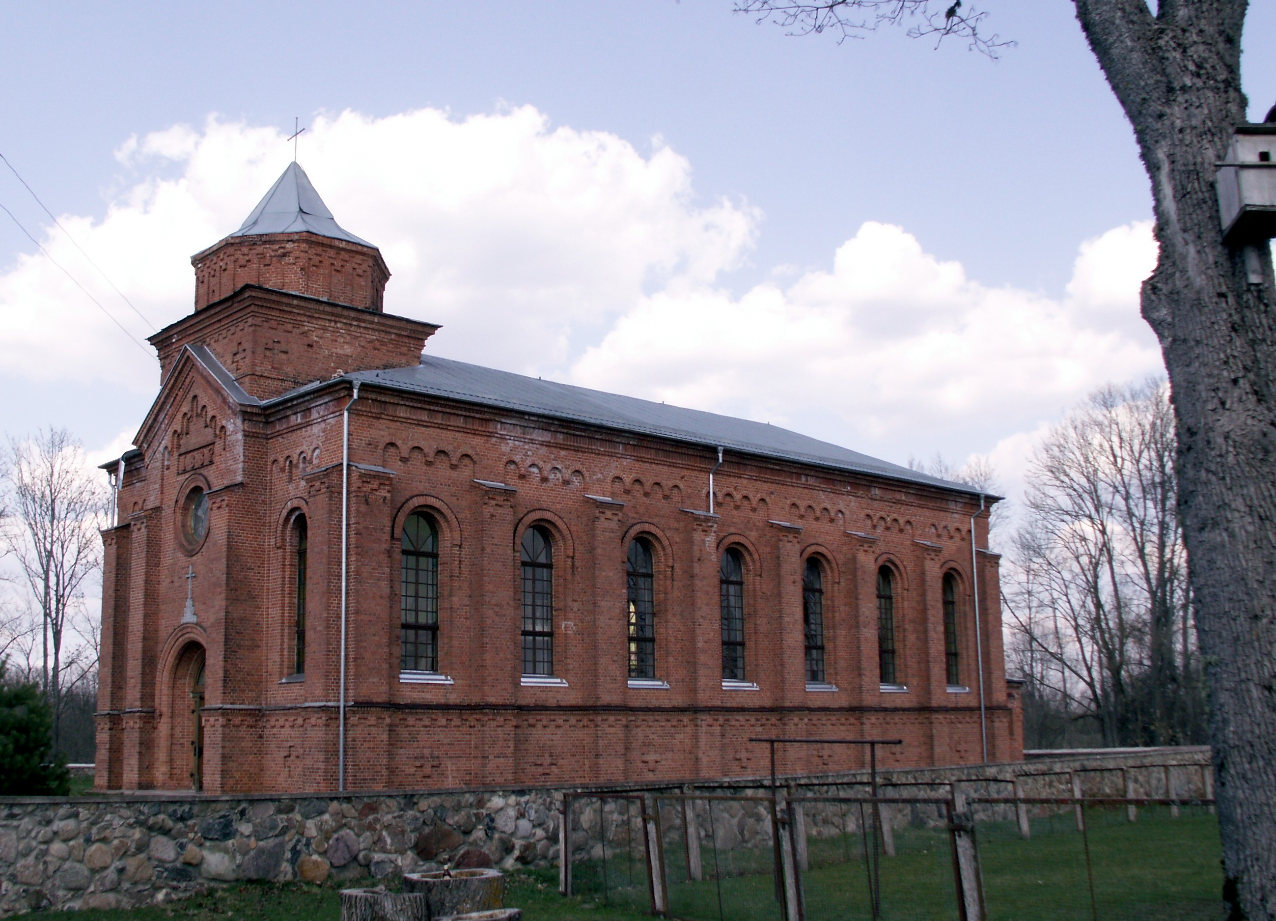 Nemunėlio Radviliškis, Biržai district, LithuaniaLietuvių: Nemunėlio Radviliškis, Biržų rajono savivaldybė, Lietuva